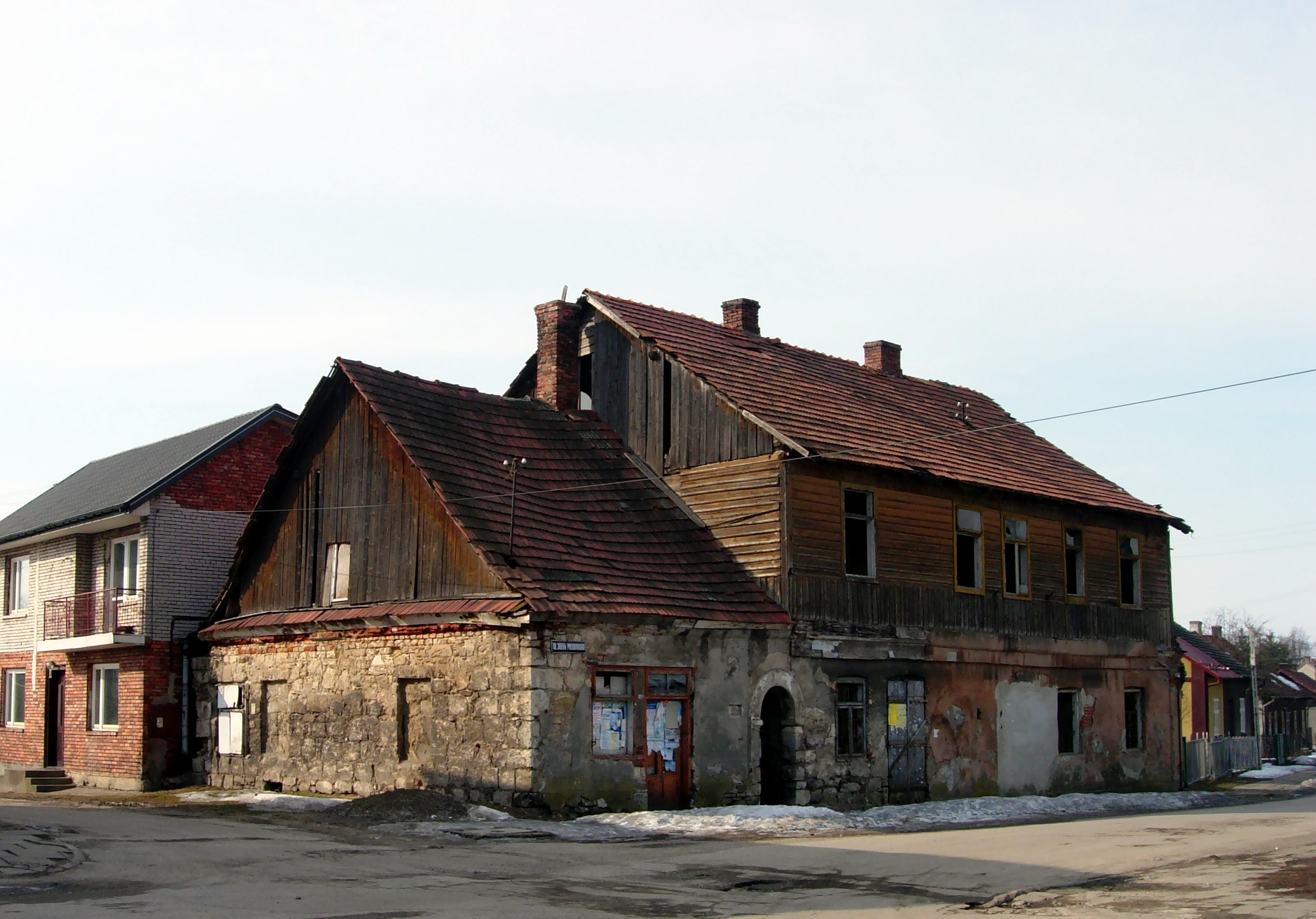 Old house in Nowy Korczyn, Poland